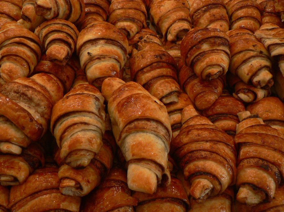 רוגעלך Rogalach - Traditional Jewish bakery! Yammi! :-)